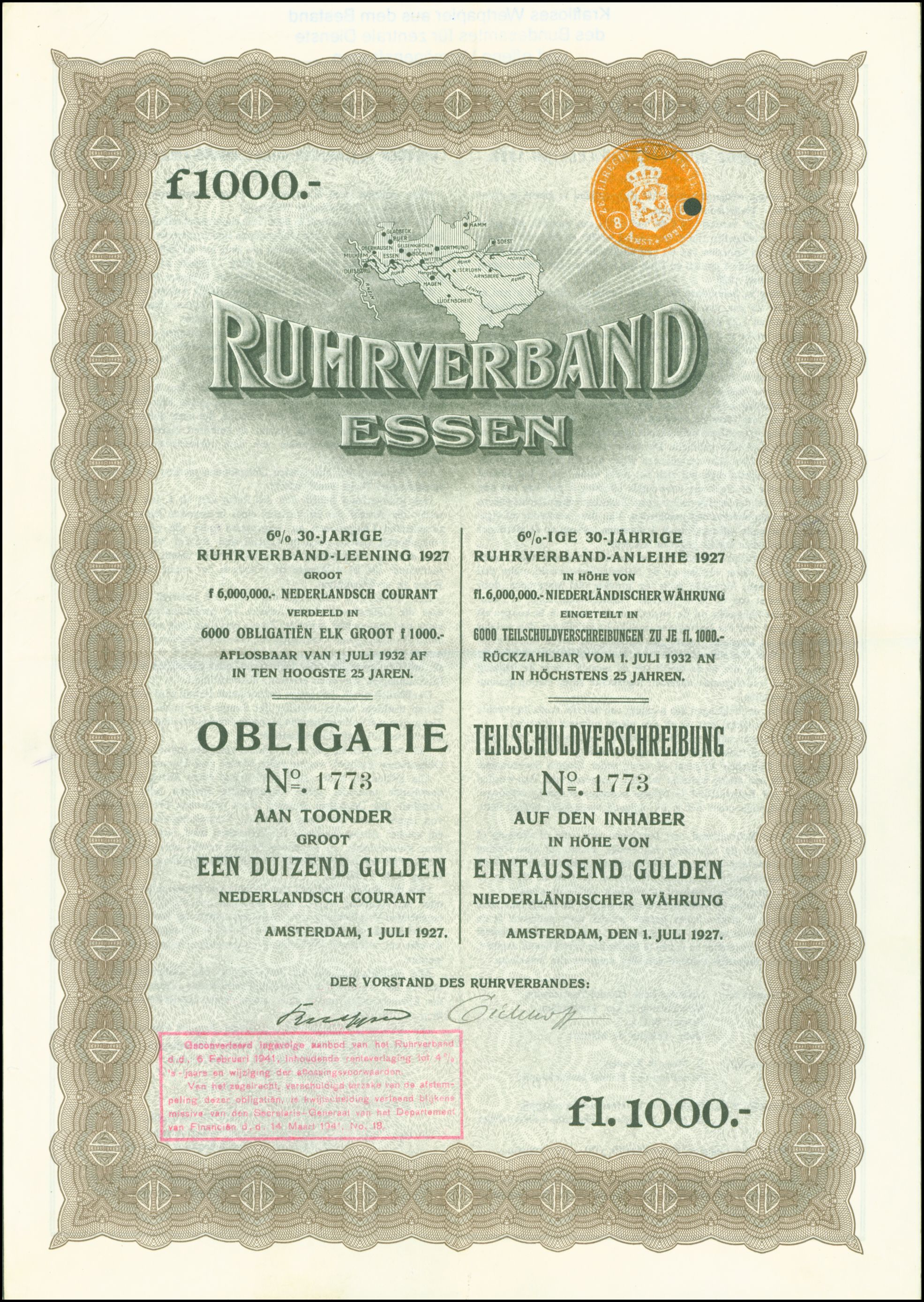 Bond of the Ruhrverband Essen, issued 1. July 1927